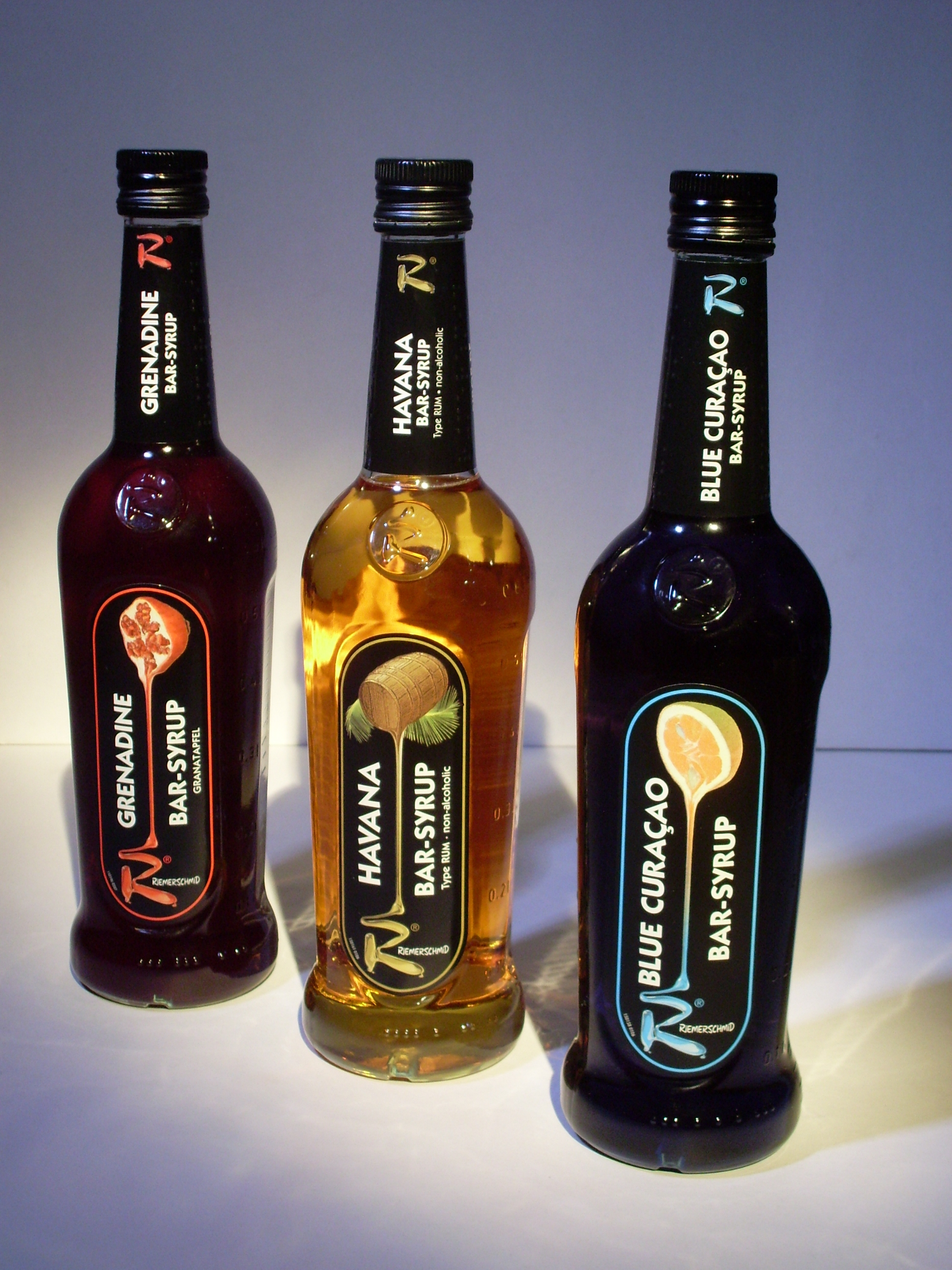 Bar-Syrup from Riemerschmid, sorts: grenadine, havana, blue curacao